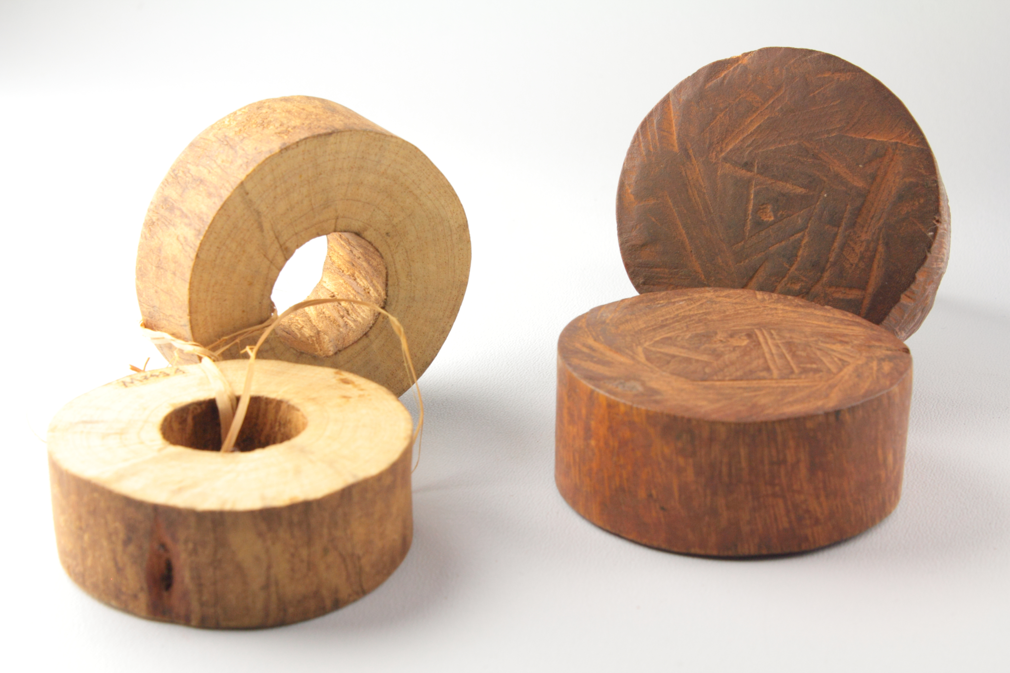 Earplugs of the Canela